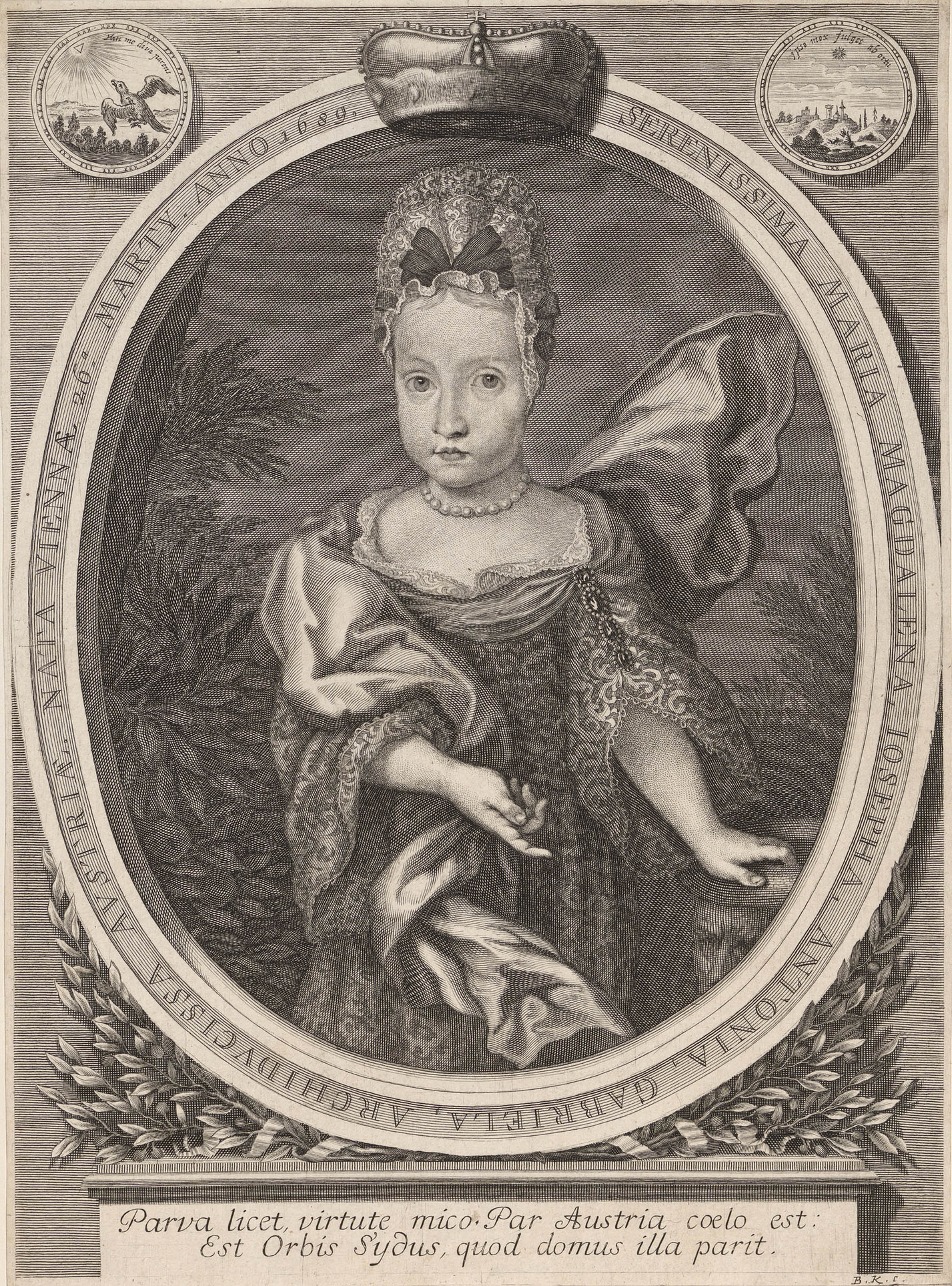 Archduchess Maria Magdalena of Austria (1689–1743)